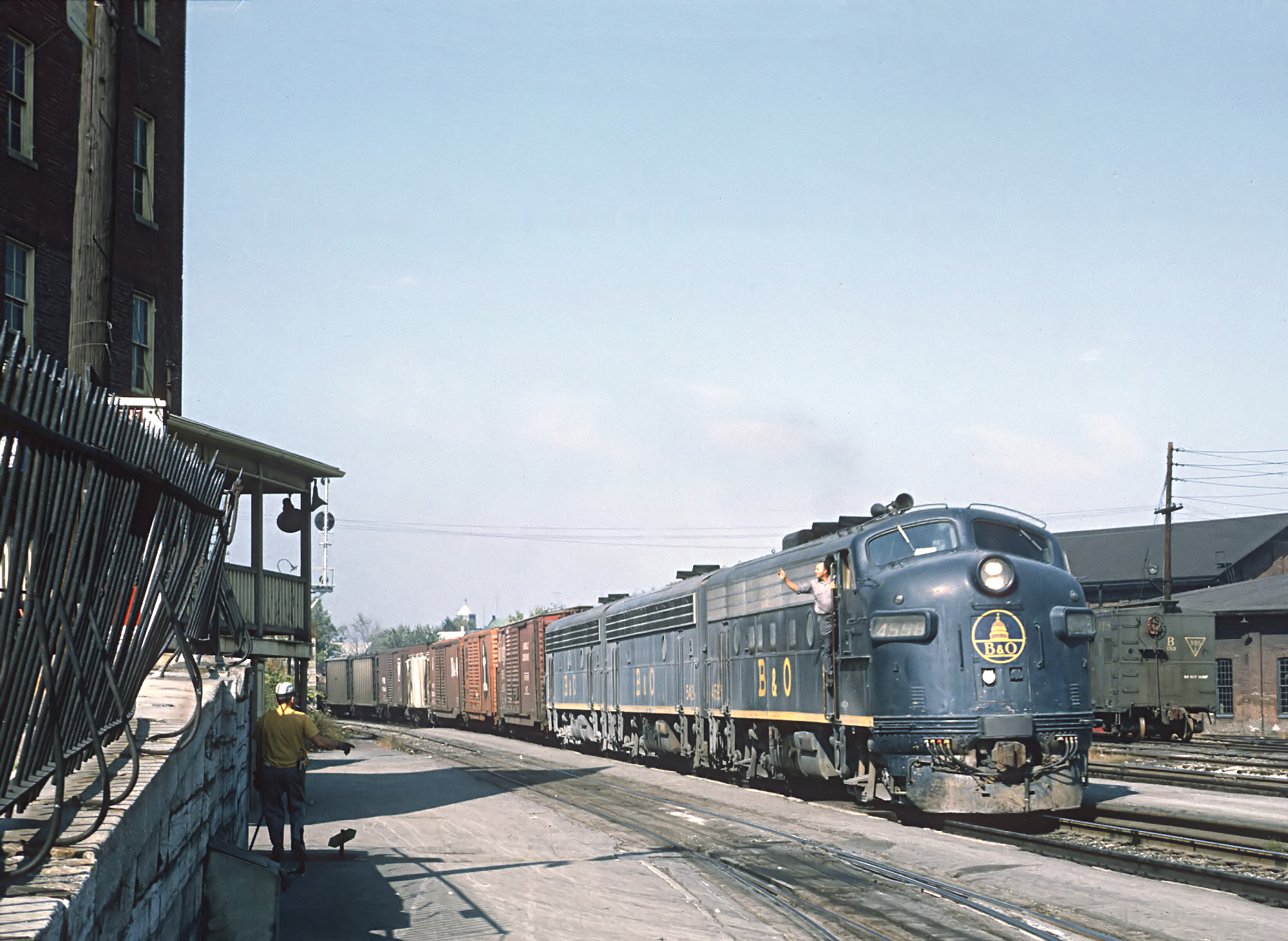 Photos of freight trains by Roger Puta are the exception rather than the rule. His love for passenger trains dominated his photography. Here are three exceptions. Lots of F-units. B&O 4598 (F7A) with an eastbound freight at Martinsburg, W. VA. on October 11, 1969. This file comes from the Roger Puta collection, which passed to Mel Finzer. They were scanned and posted by Marty Bernard, are in the Public Domain. Attribution to "Roger Puta" is not required for a PD image, but should be done as a matter of courtesy to a major Commons contributor. Mel Finzer, the heirs of this work's copyright holder (usually the creator) have released it into the public domain. This applies worldwide. In some countries this may not be legally possible; if so: The heirs of the creator grant anyone the right to use this work for any purpose, without any conditions, unless such conditions are required by law. See This work is free and may be used by anyone for any purpose. If you wish to use this content, you do not need to request permission as long as you follow any licensing requirements mentioned on this page.